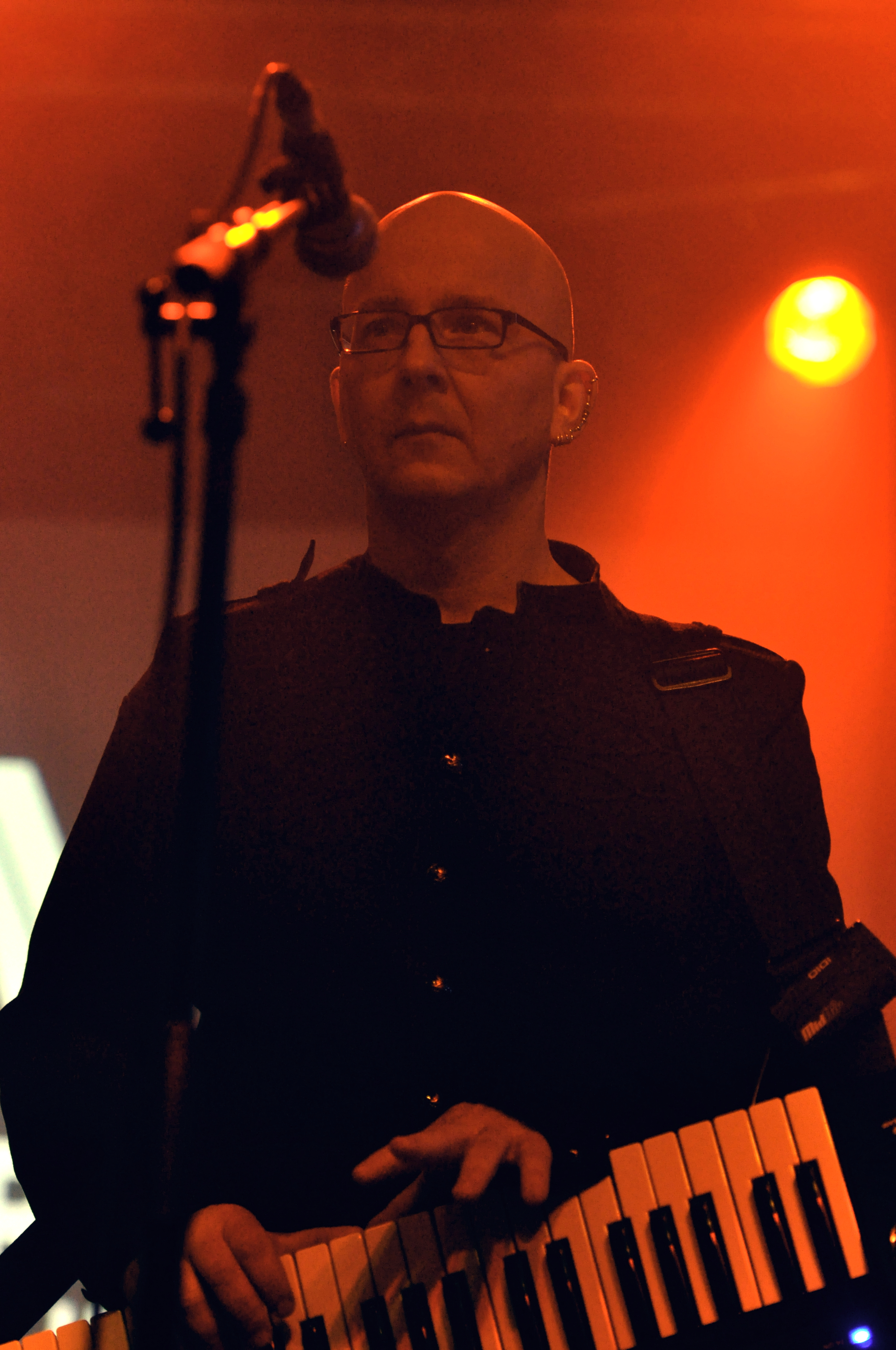 The German Band Melotron at e-tropolis 2013, Berlin